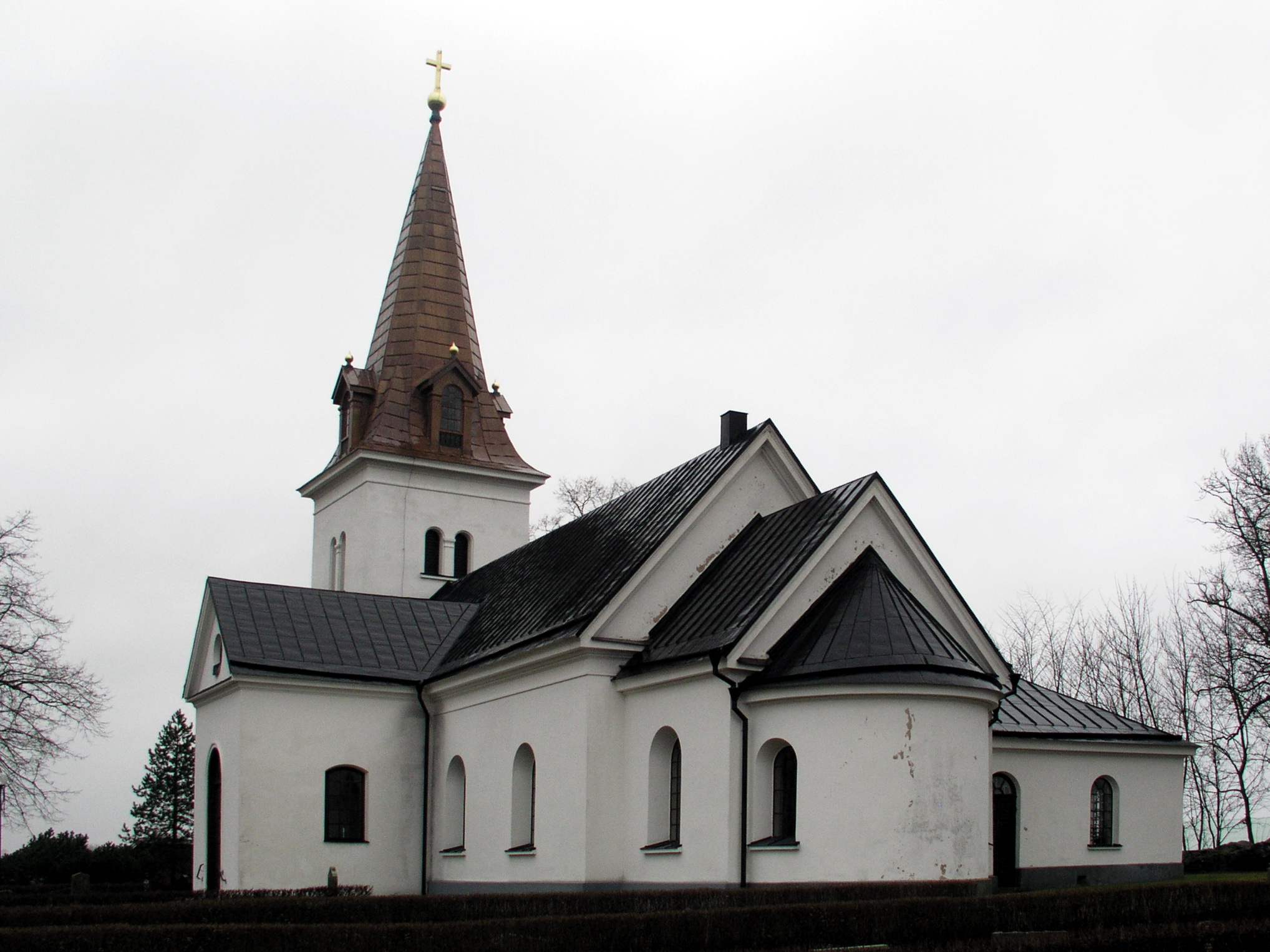 Östra Hargs kyrka, Diocese of Linköping, Linköpings kommun. The picture was taken the 4th of December 2005 by Håkan Svensson (Xauxa).